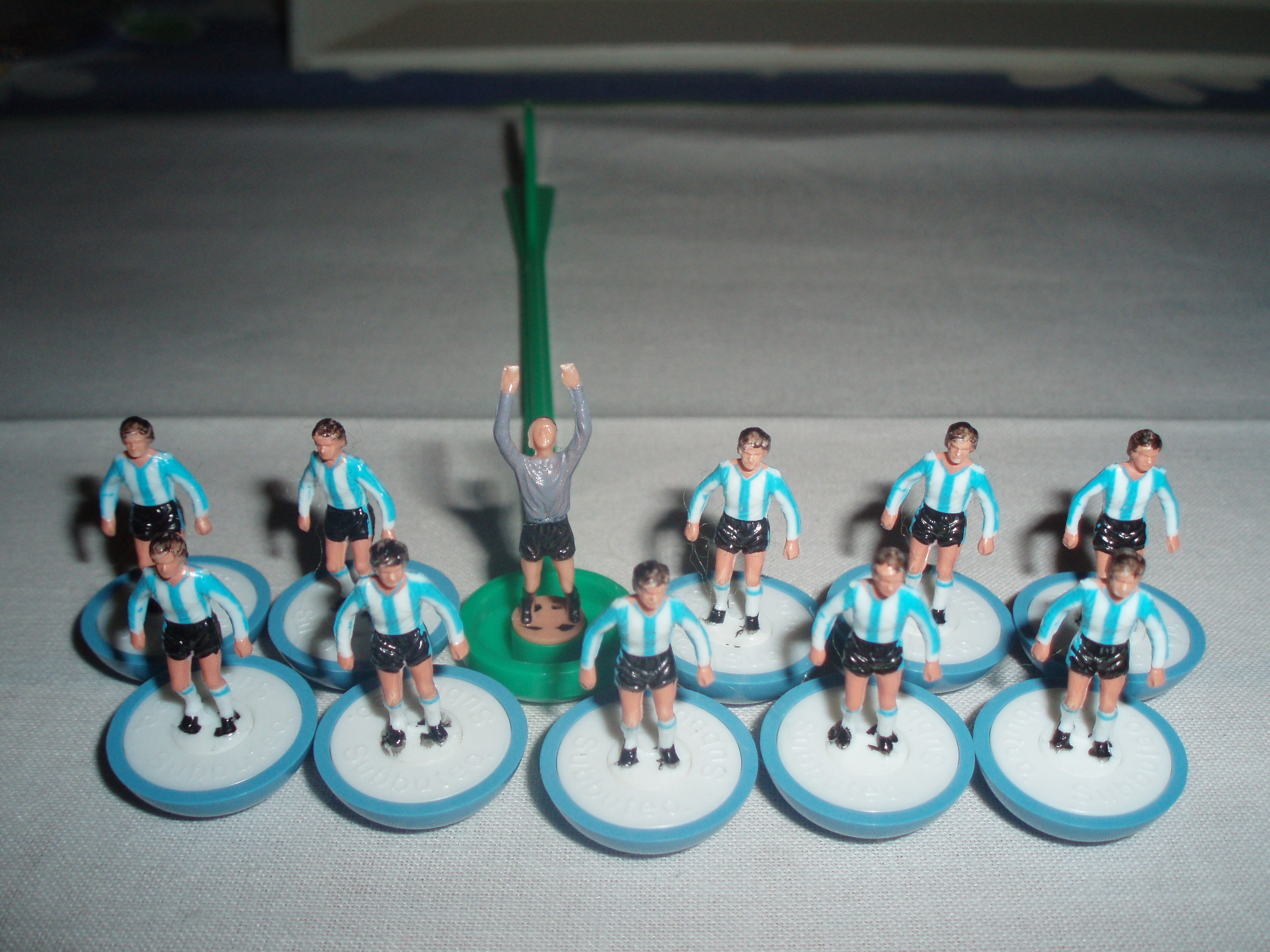 Argentina national football team Subbuteo